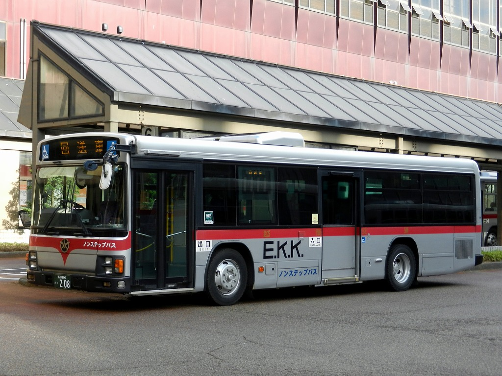 Echigo Kotsu Isuzu Erga (Nonstep bus,KL-LV280L1)